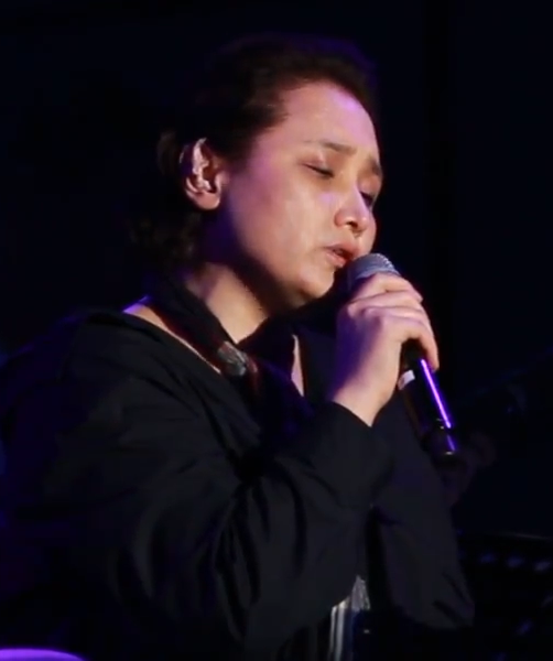 South Korean singer Lee So-ra at Pilsner Festival